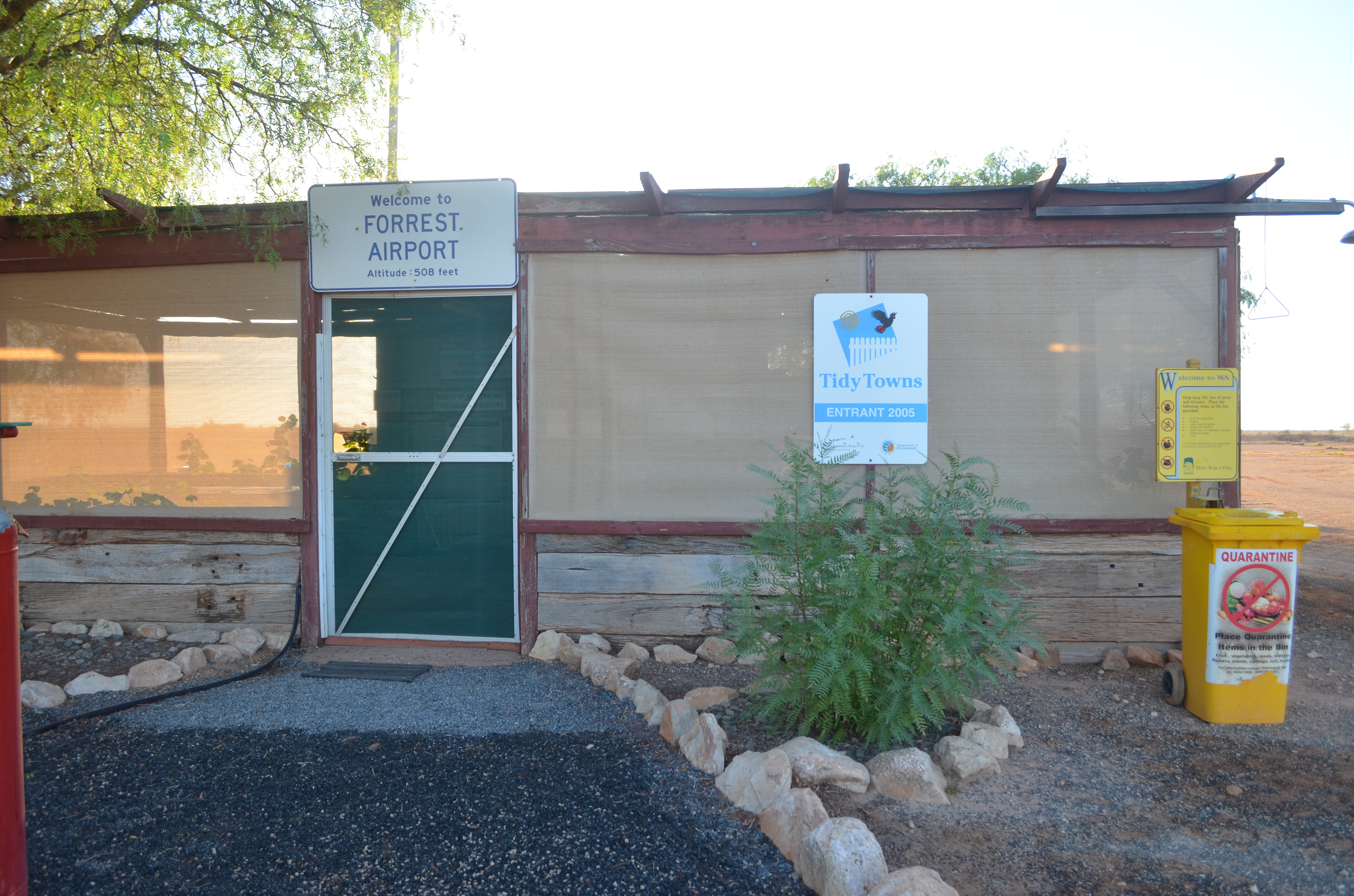 This is a photo of the terminal building at Forrest Airport at Forrest, Western Australia